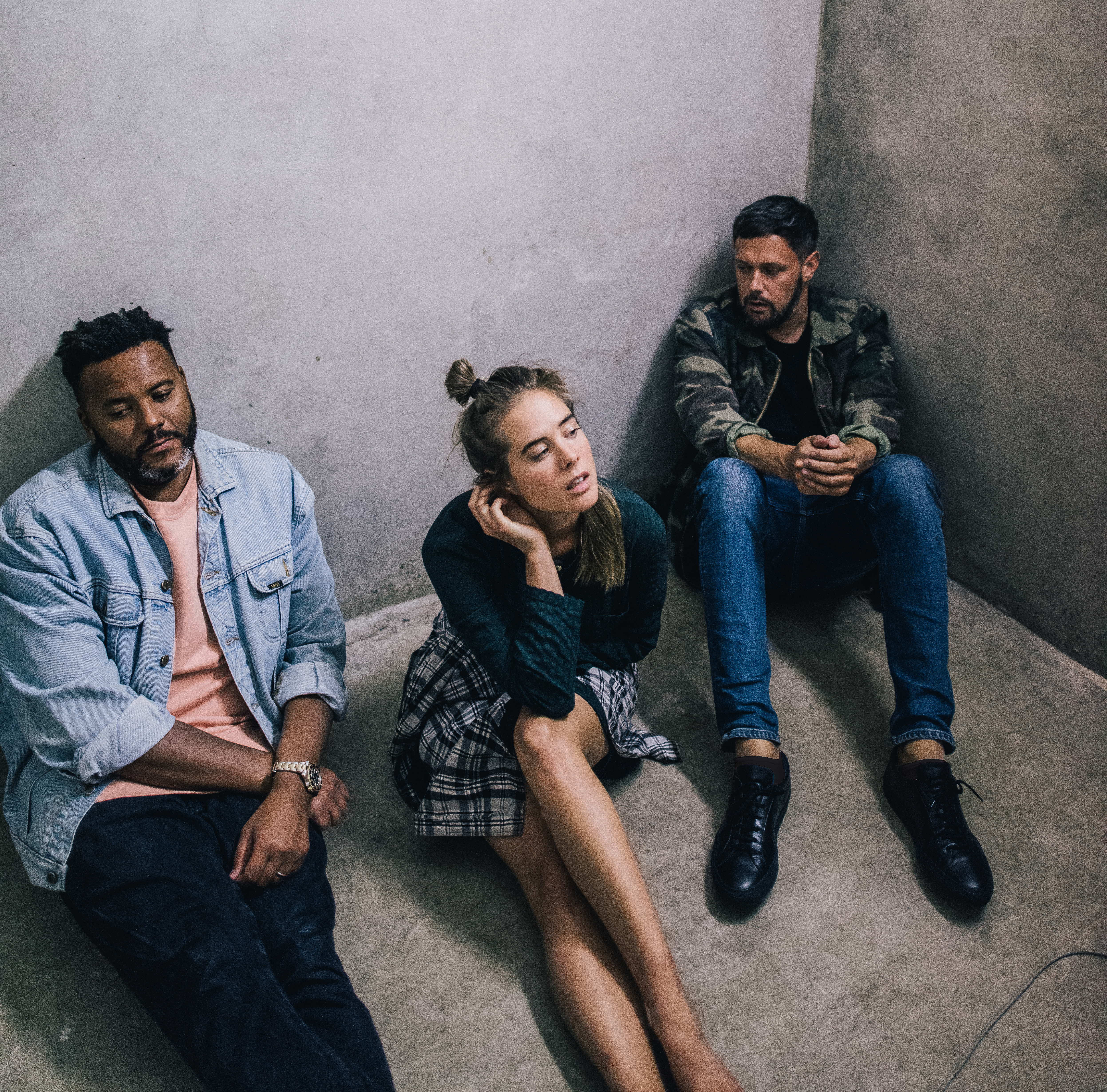 NONONO